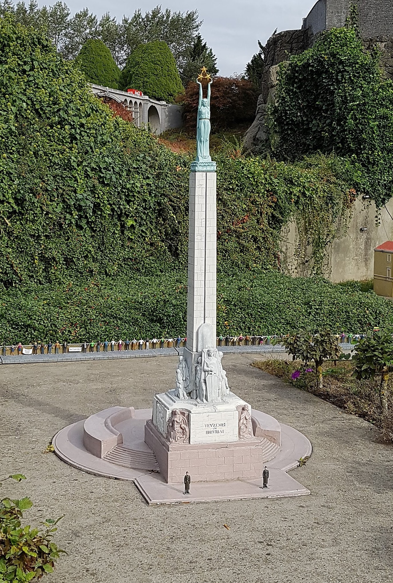 Freedom monument of Riga at Mini Europe